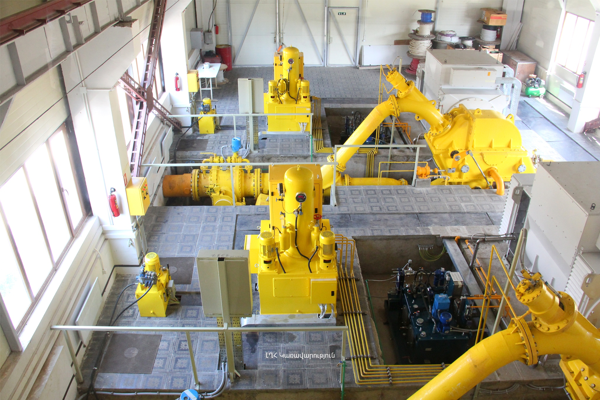 Trghi-1 hydro energy station equipments of "Artsakh HEK"